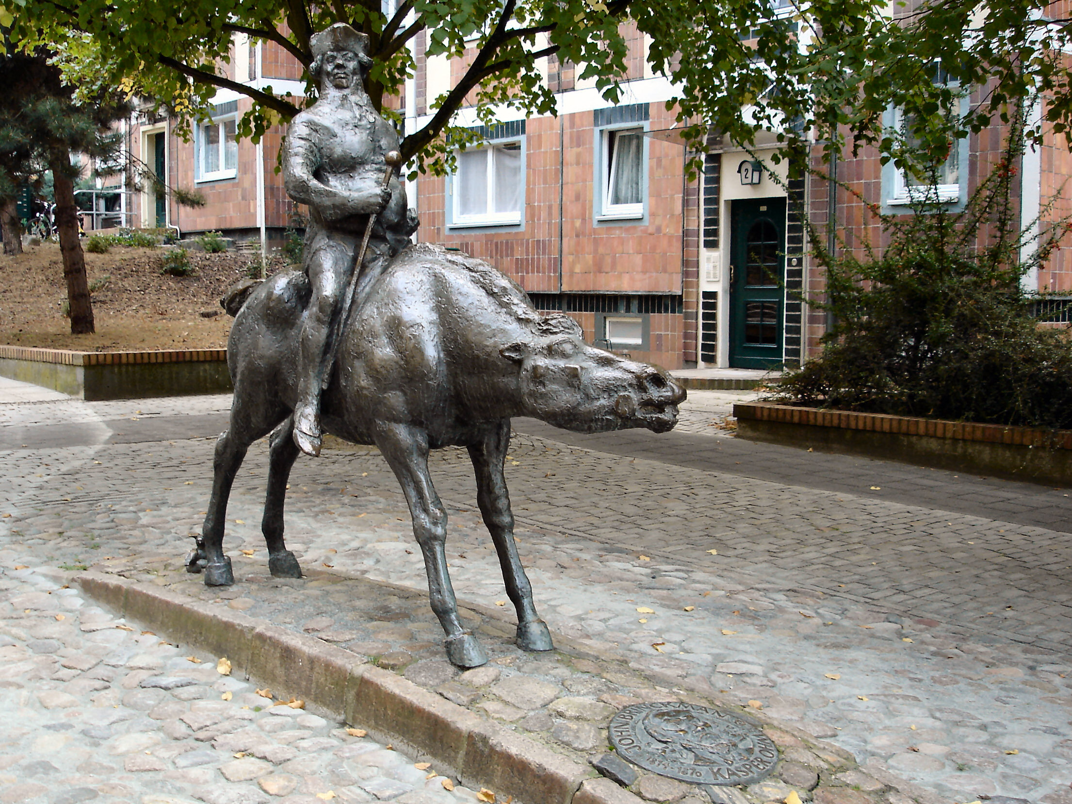 Sculpture of Kasper Ohm, a literary character from a novel of John Brinckman